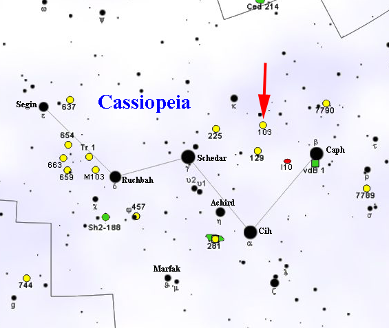 Map of NGC 103